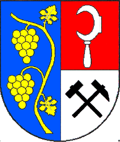 Municipal coat of arms of Šardice village, Hodonín District, Czech Republic.